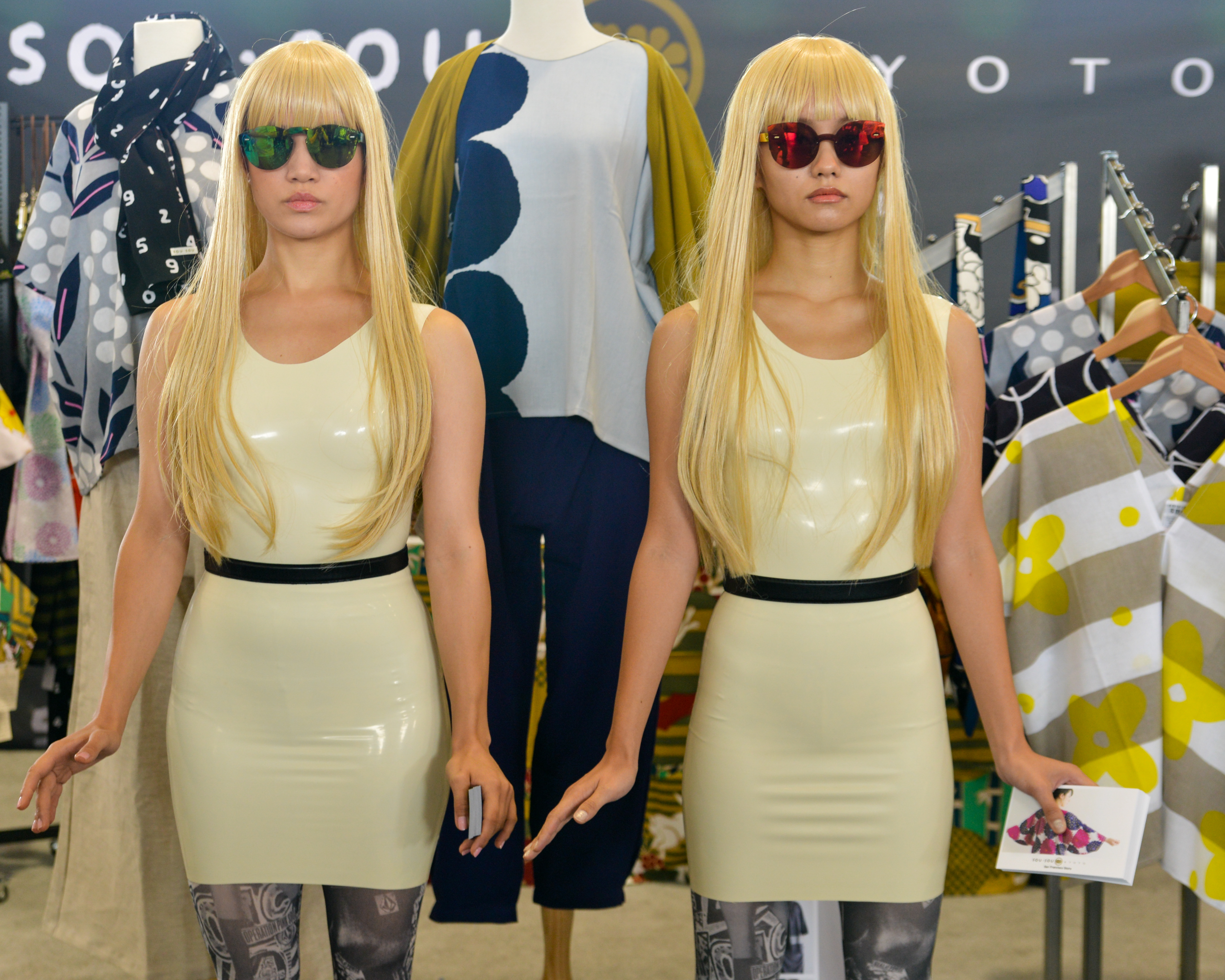 FEMM at SOU SOU booth, J-POP SUMMIT 2015